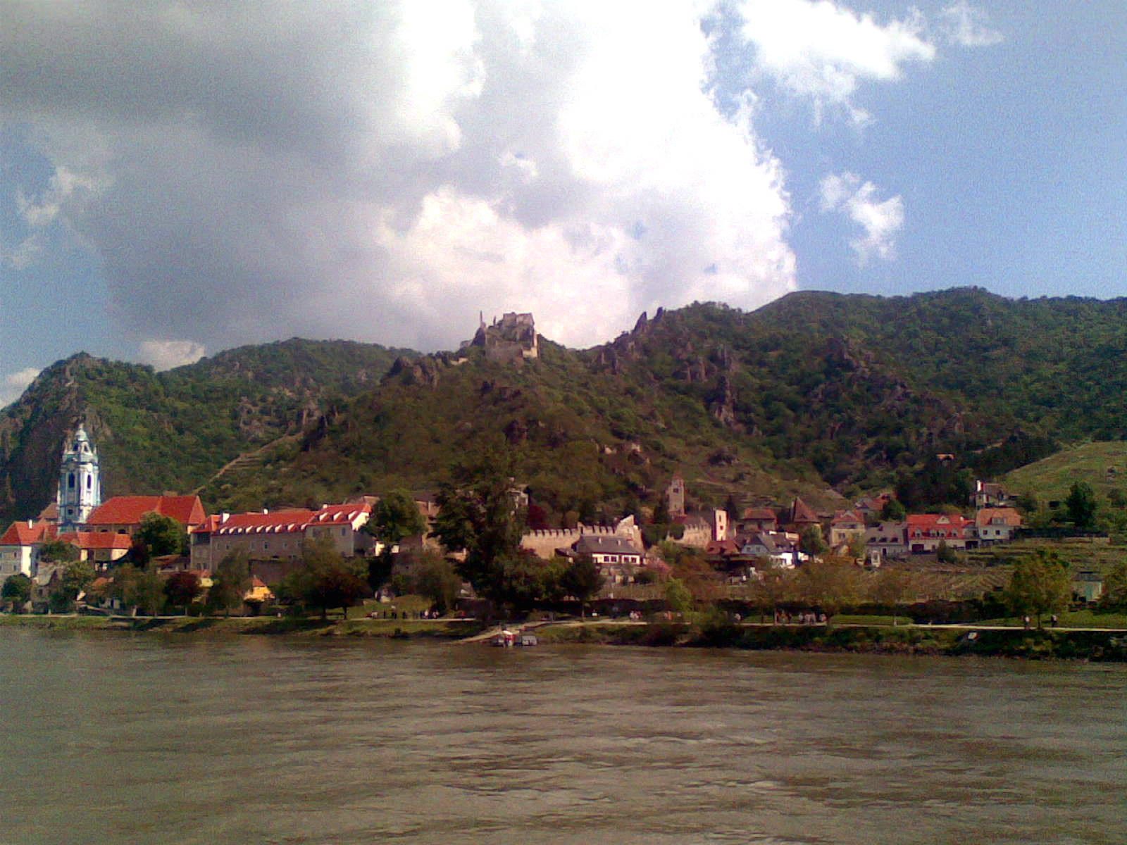 Picture of Dürnstein, Austria, taken from the Danube.